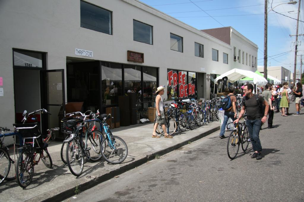 Free Geek during Geek Fair